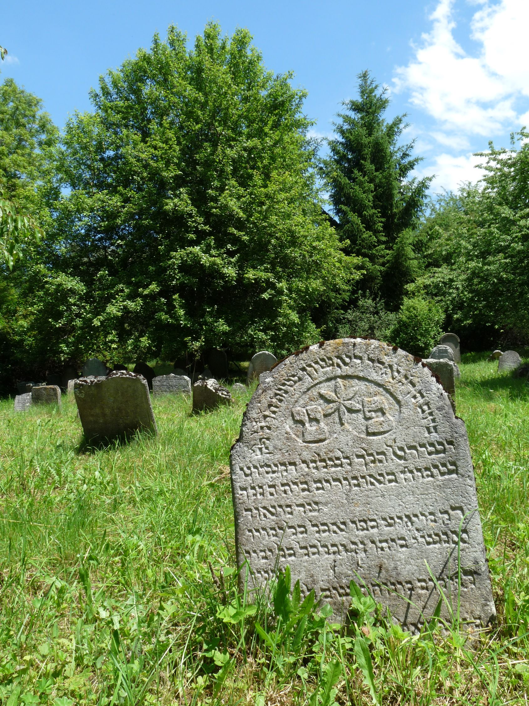 Jewish cemetery by the municipality of Dlouhá Ves, Klatovy District, Plzeň Region, Czech Republic.